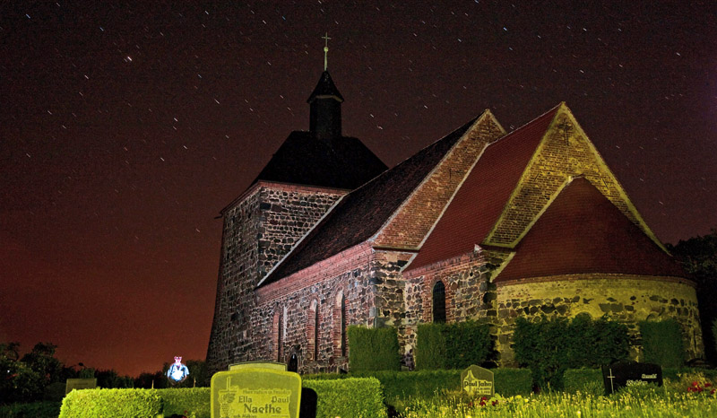 Bergholz church by night